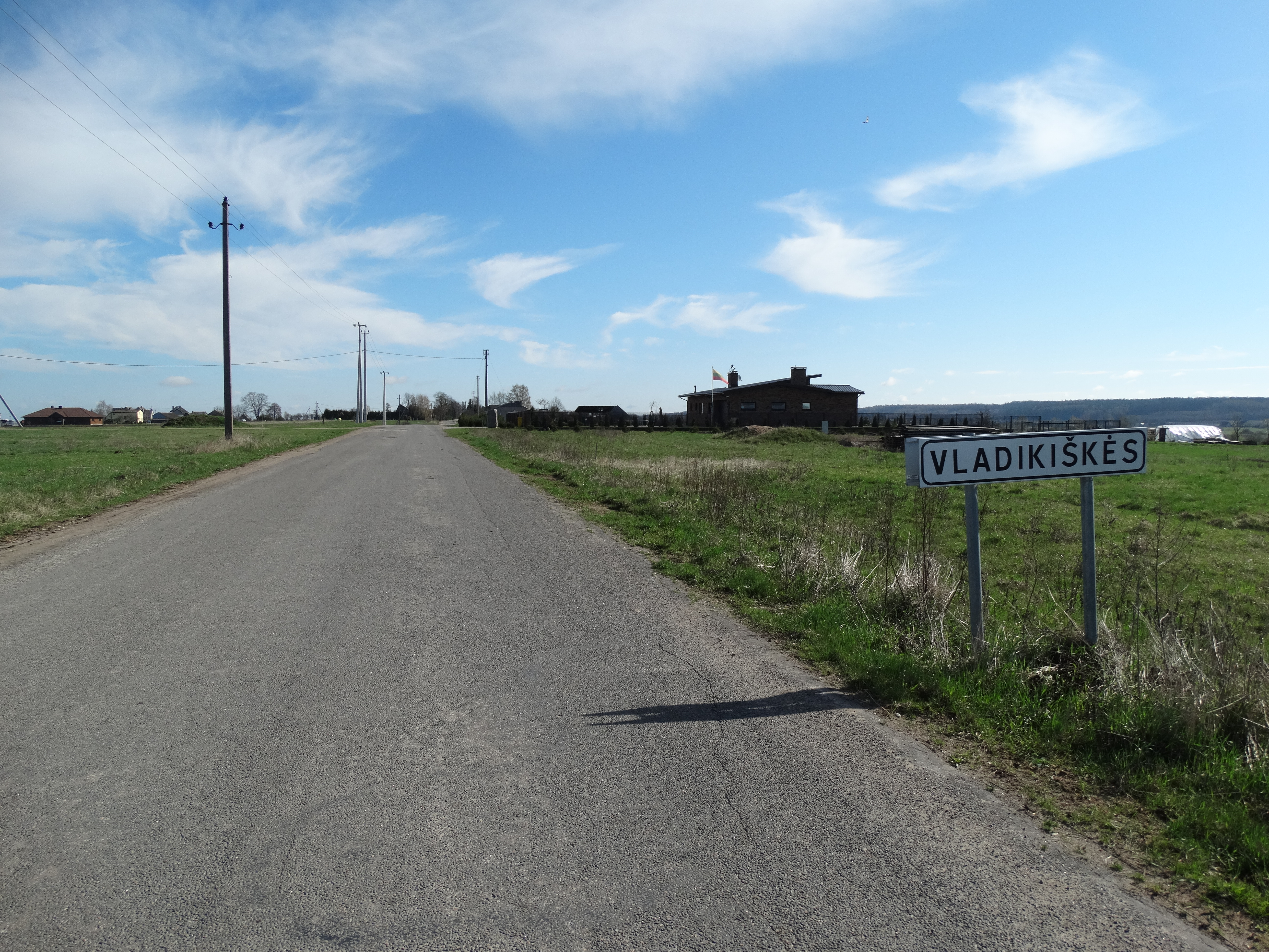 Vladikiškės, Kaišiadorys district, Lithuania